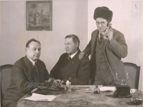 American IWW leaders in Soviet Russia. William Shatoff, Bill Haywood, George Andreichin.